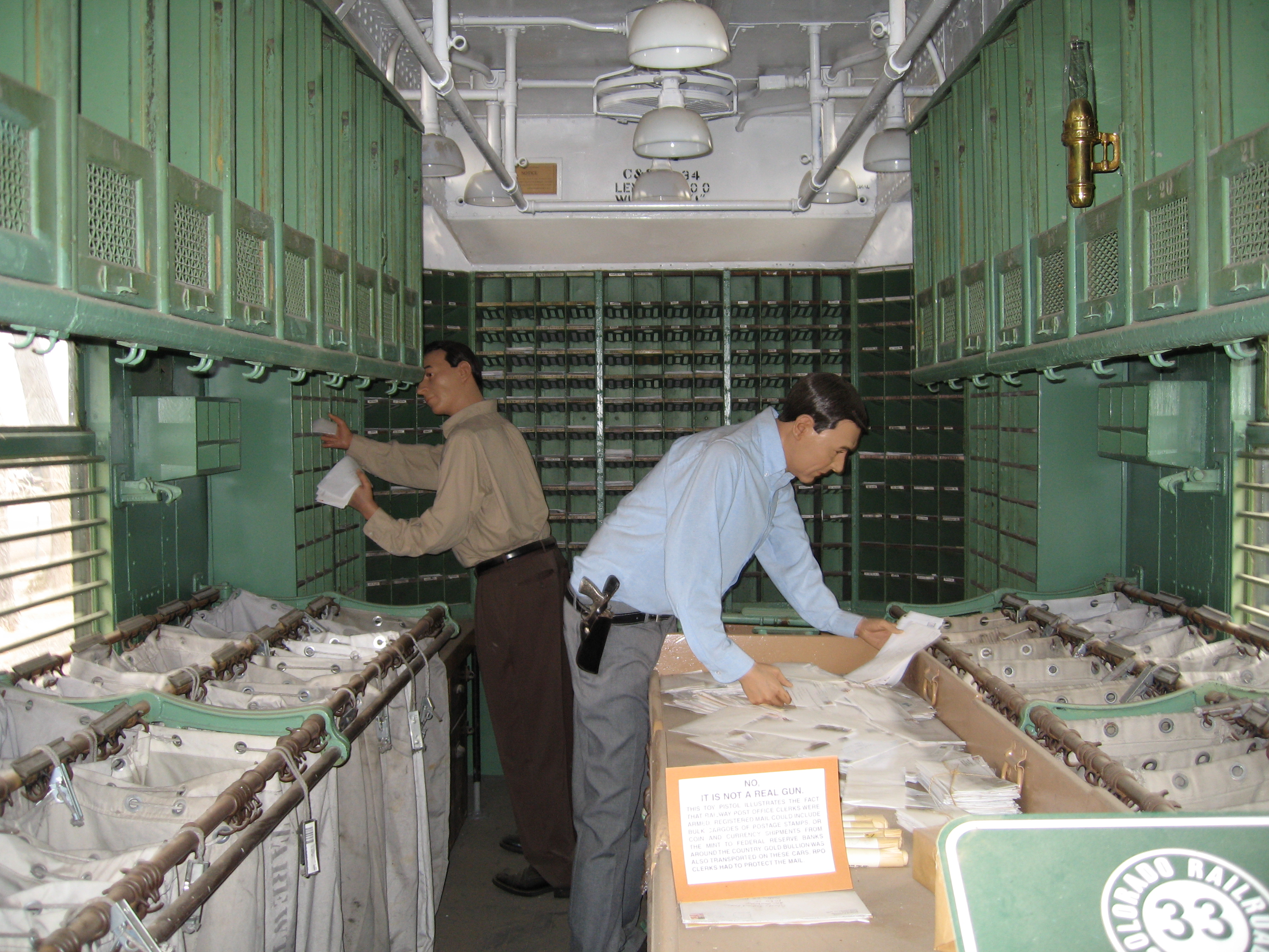 Description at Colorado Railway Museum: "This narrow gauge RPO was a rolling post office with clerks sorting mail in route. From 1899 to 1951 it served such communities as Salida, Gunnison, Montrose, Durango, and Alamosa. A slot in the side of the car would allow people to post a letter while the car was in station. This Railway Post Office car is on the Colorado Register of Historic Places."